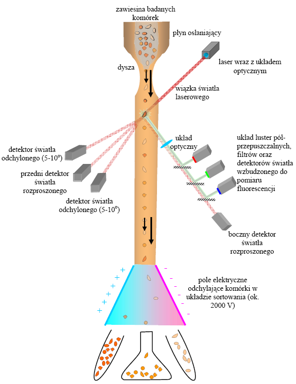 Diagram of the flow cytometry